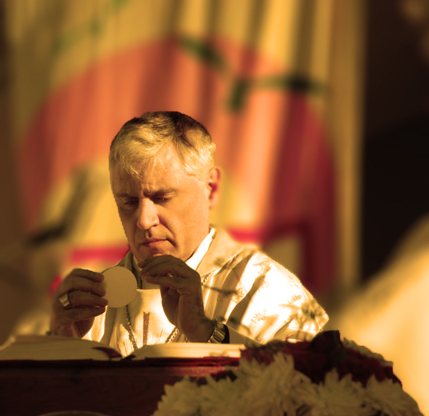 Monseñor Oscar Sarlinga